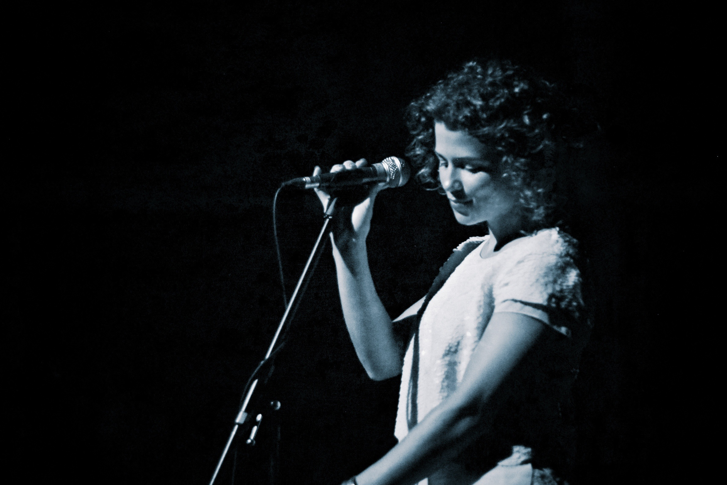 Electric Youth (band)